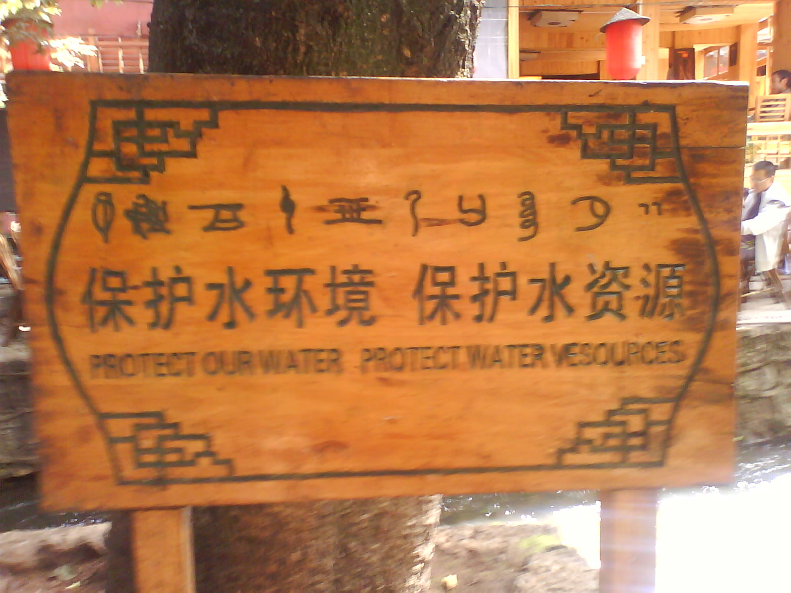 Pannel in Lijiang written in Dongba, Chinese and English languages about protecting water resources.